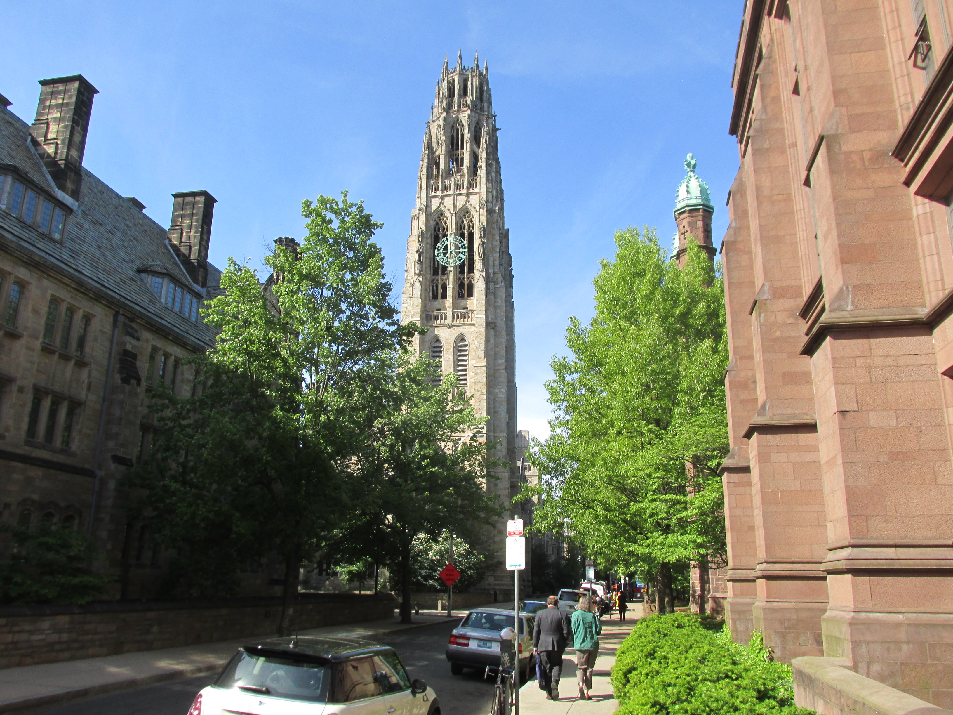 Harkness Tower, Yale University, New Haven Connecticut - 2014